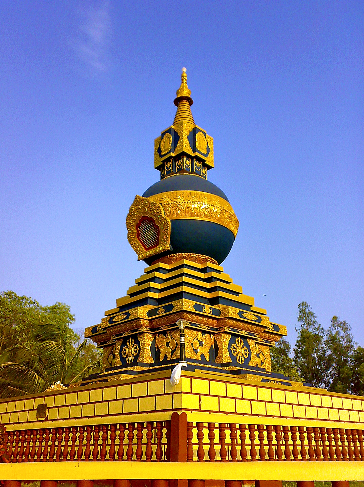 This Tibetan Buddhist Chorten is located at a place called Mundgod in Karnataka - India. There are so many monasteries located over here and the entire place is called Doeguling "Tibetan Colony". People also call it as "Mini Tibet of India"